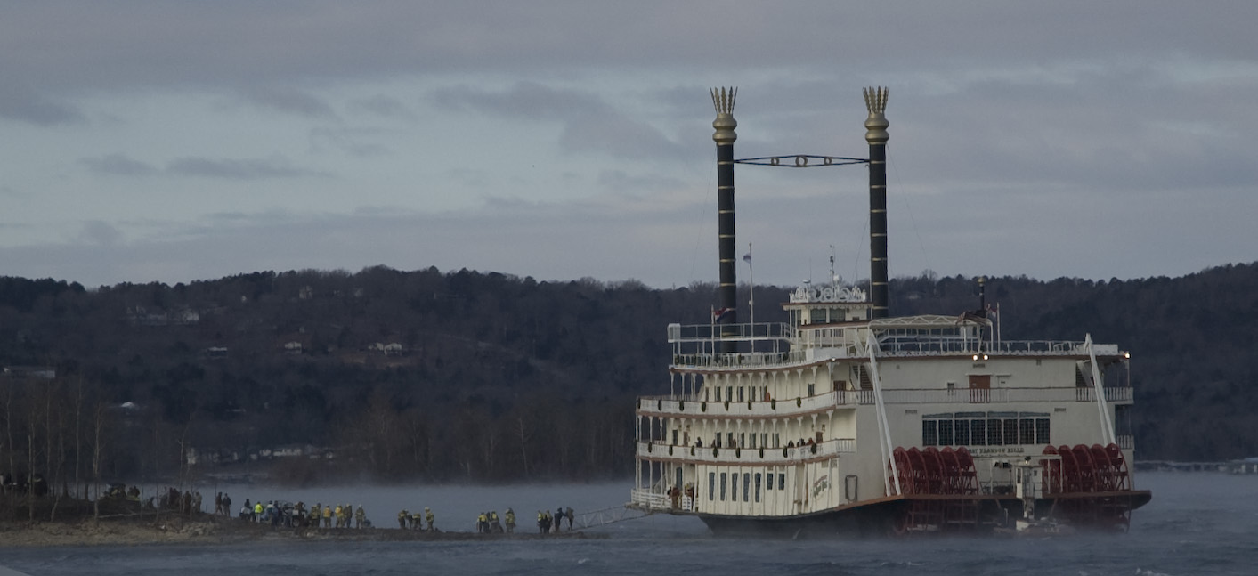 The Showboat Branson Belle seats 700 passengers and cruises on Table Rock Lake near Branson, Missouri. Each cruise features a three-course meal All meals are prepared onboard in the ship's galley and served in the three-story atrium dining theater. Specialty dining options include the Paddle Wheel Club Room and Captain's Row. The Showboat Branson Belle, presents two shows for the 2012 season. Made in the USA features the world's only violin-playing aerialist, Janice Martin, and the male vocal group The ShowMen, presenting all-American musical selections spanning the decades. The ShowMen, five talented male vocalists and dancers from all across America, join Martin to fill the stage with a blend of contemporary harmonies. Comedian and magician Christopher James is the master of ceremonies and entertainer, and all are accompanied by the Showboat's signature live band, the Rockin' Dockers, for a live entertainment experience. A second all-new Made in the USA show featured on noon and Sunday cruises presents talented fiddler Dean Church and master pianist Julie McClarey, joined by The ShowBelles, a female quartet, and the live band, the Castaways. Comedian David Hirschi, two-time Branson Comedian of the Year, emcees and performs. Cruisin' with the Classics Gospel Music Cruises are presented August 26 - 31 on noon cruise in 2012. These cruises include gospel melodies from Showboat performers, followed by Southern Gospel greats including: the Dixie Melody Boys, August 26, a group with more than 20 top 40 hits; Gold City, August 27, with 60 Singing News Fan Awards over a 30-year career; The Stamps Quartet, August 28, Grammy and Dove award winners who toured with Elvis; The Kingsmen, August 29, Dove Award winners and Gospel Music Hall of Famers; The Florida Boys, August 30, crowd favorites with 100 recorded gospel albums; and The Blackwood Brothers Quartet, August 31, winners of eight Grammys and five Dove awards. .